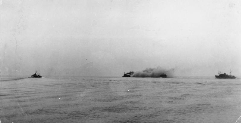 IWM caption : OPERATION PEDESTAL, AUGUST 1942. 12 August: Evening Air and Submarine Attacks: A distant view of HMS NIGERIA stopped and on fire after being torpedoed. Admiral Burrough transferred to HMS ASHANTI leaving NIGERIA to return to Gibraltar.